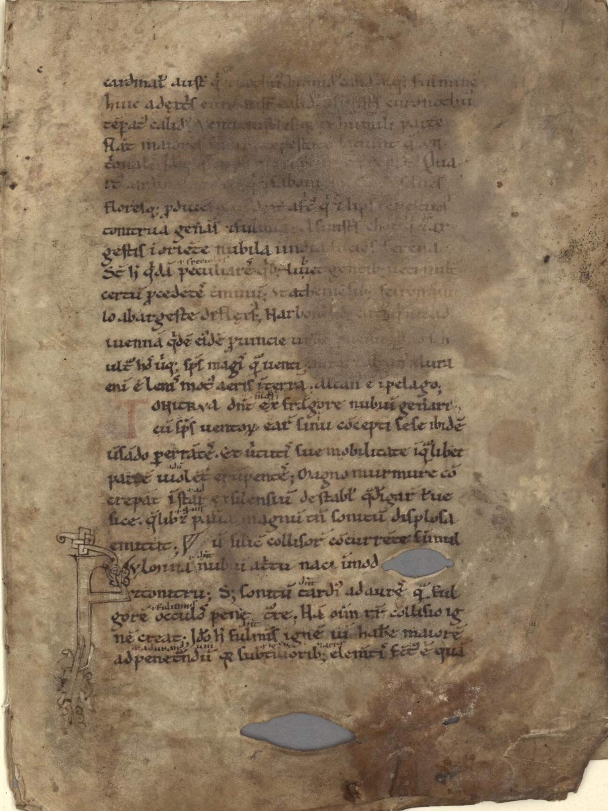 A page from Bede's De natura rerum (f.1.r)